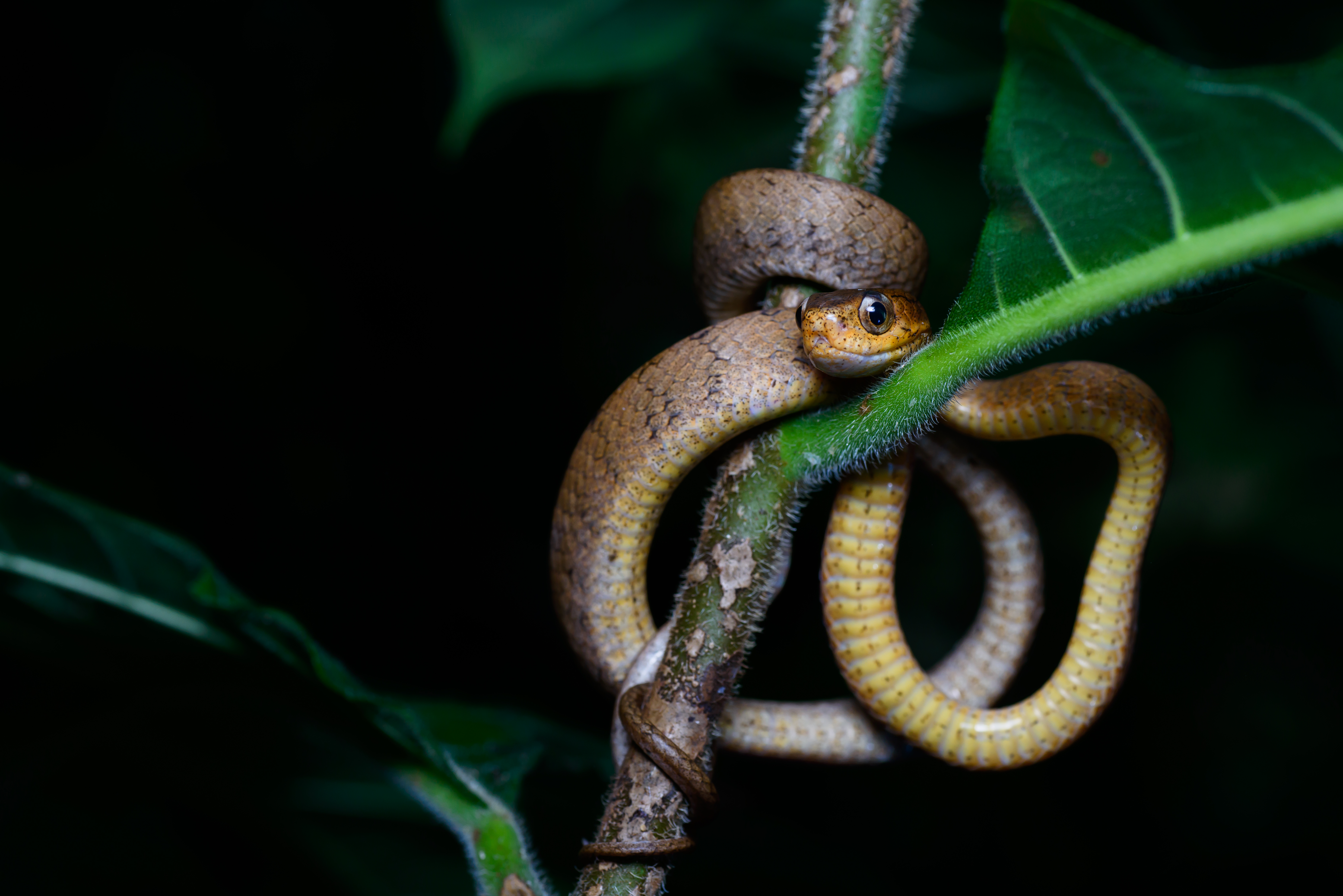 Pareas carinatus, Keeled slug-eating snake - Khao Sok National Park. Photo by Thai National Parks